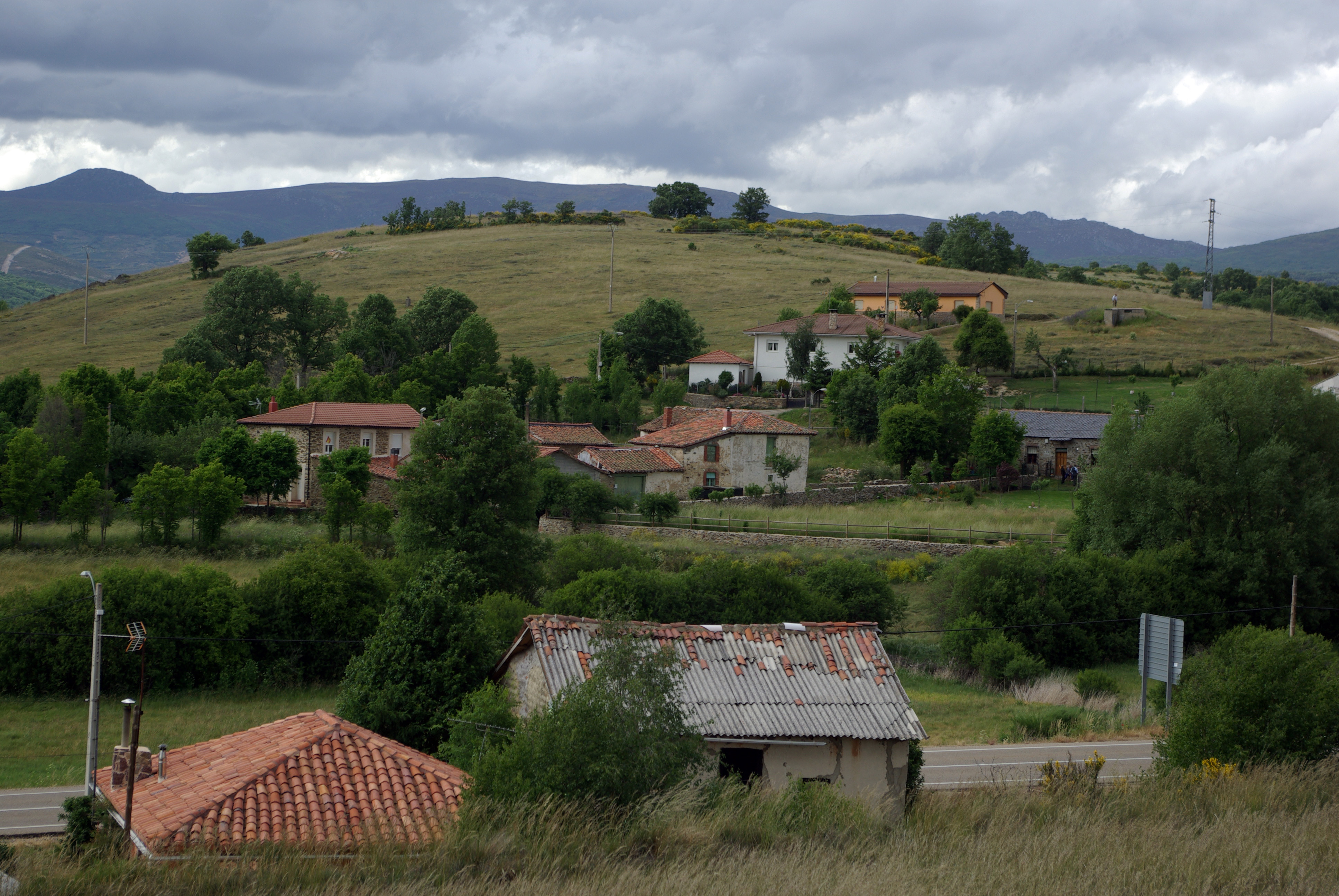 Orrios (Riello León, Spain).